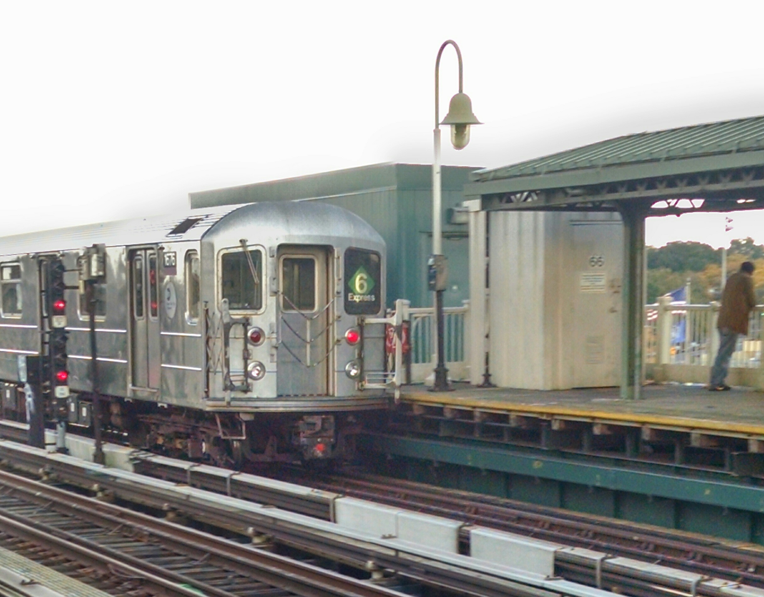 Westchester Square-East Tremont Avenue Station(6 line)